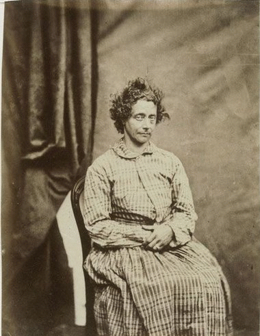 "Portrait of an Insane Woman" by Hugh Welch Diamond, ca. 1852-1854.